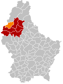 Own edit of Kanton WiltzLocatie.png